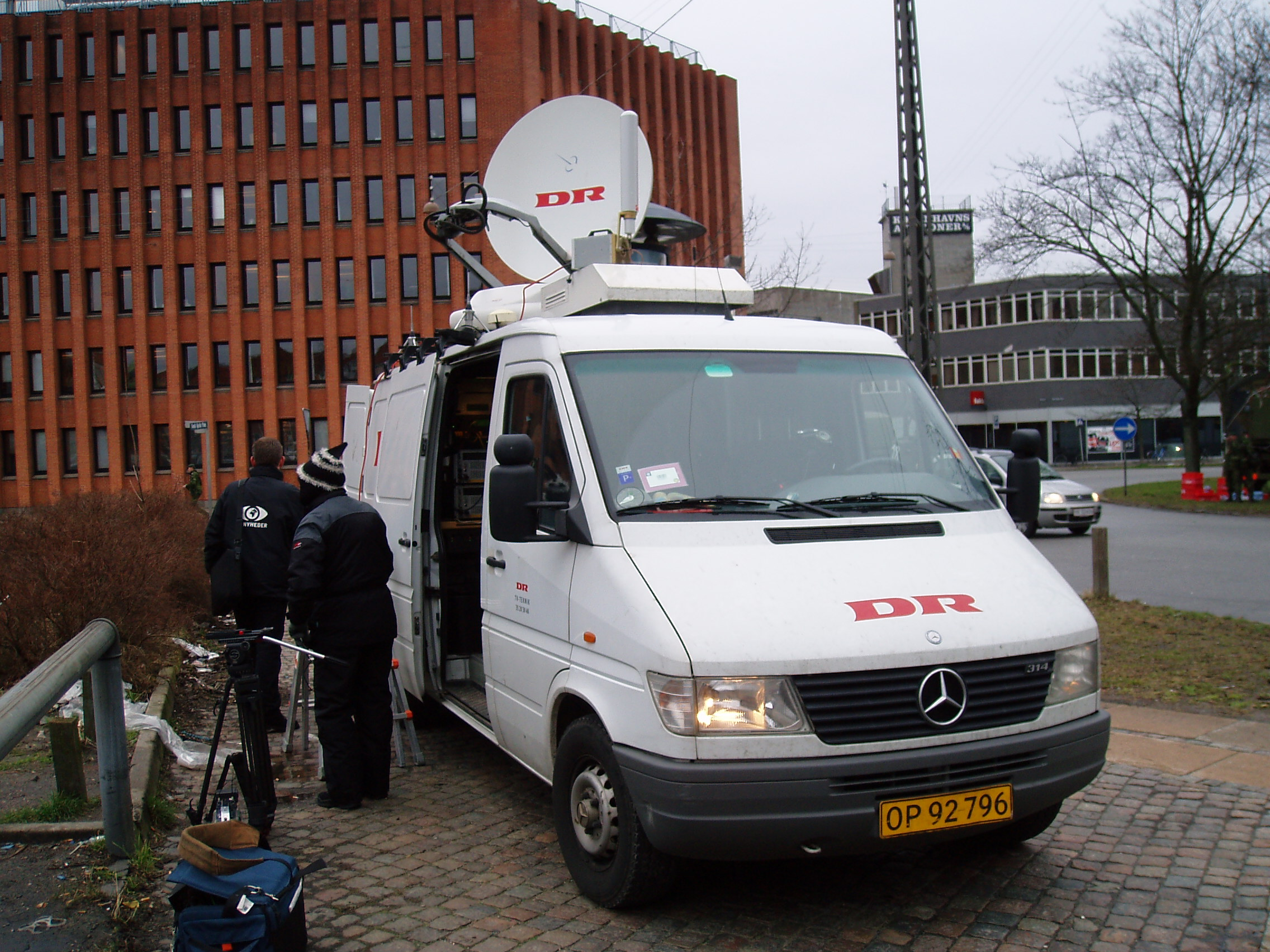 Mercedes-Benz broadcasting vehicle from Danmarks Radio broadcasting during a full-scale terror exercise in Copenhagen.